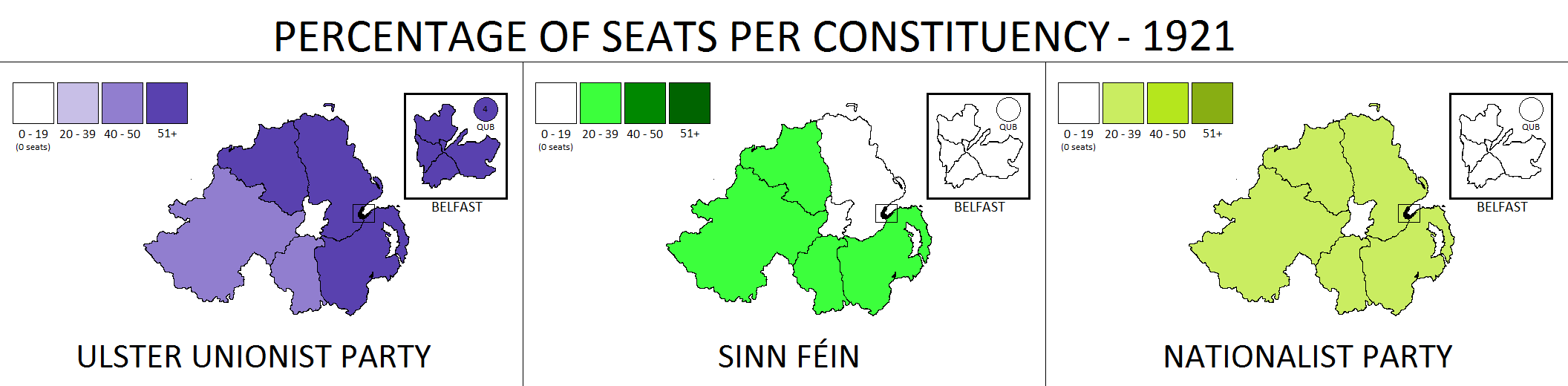 Map showing the results of the 1921 Northern Ireland general election.